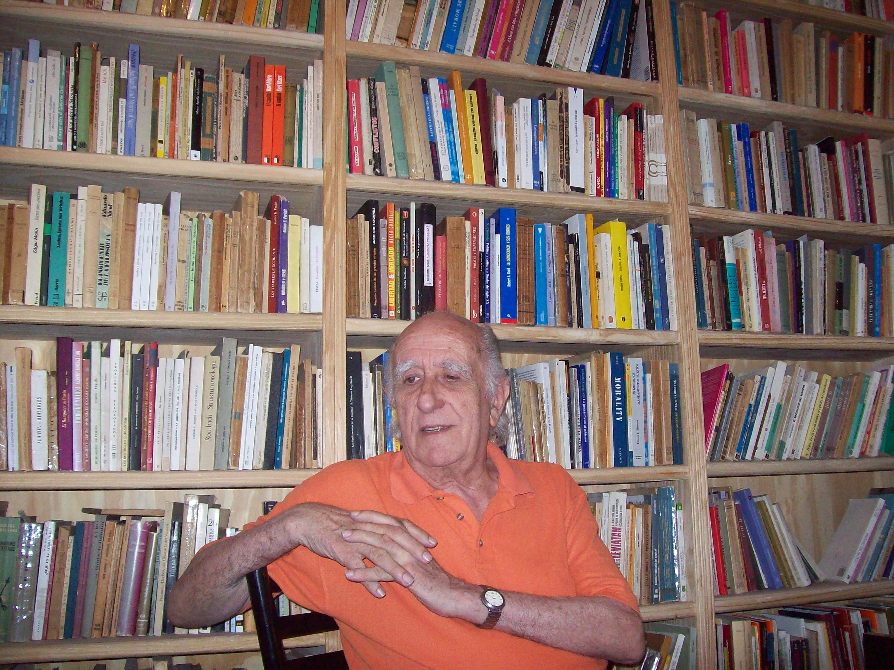 Argentinian philosopher Ricardo Maliandi.